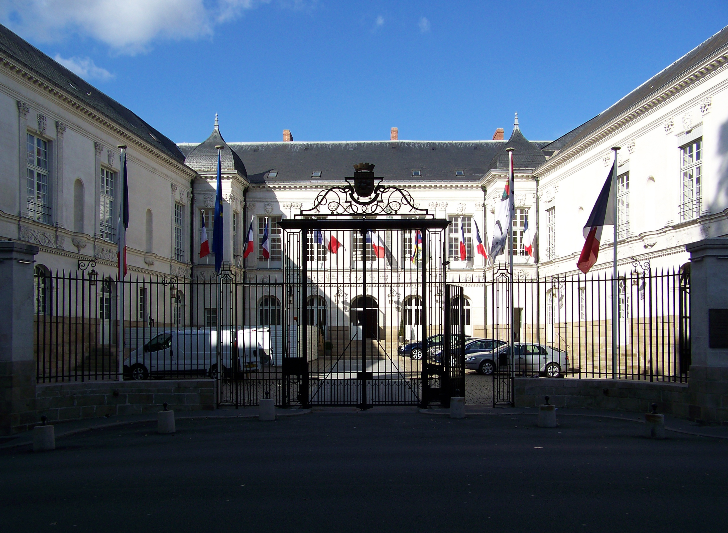 Nantes city hall.